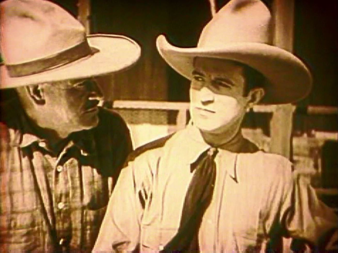 Low resolution screenshot of J. P. McGowan as Ed Hicks and Bob Custer as Chuck Drexel in the American public domain western film Arizona Days (1928).